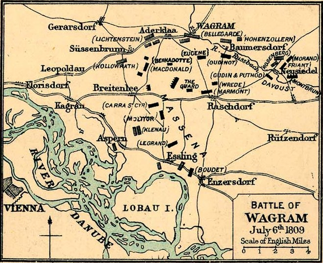 Map of the Battle of Wagram (final day)